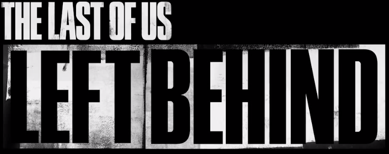 The Last of Us: Left Behind logo